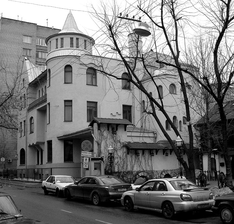 No.4A, Mansurovsky Lane, Moscow, Russia (just off Ostozhenka Street). The building, designed by Alexander Zelenko, now houses the Embassy of Syria